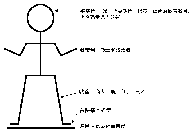 Structure of the Indian society by castes印度種姓制度結構圖